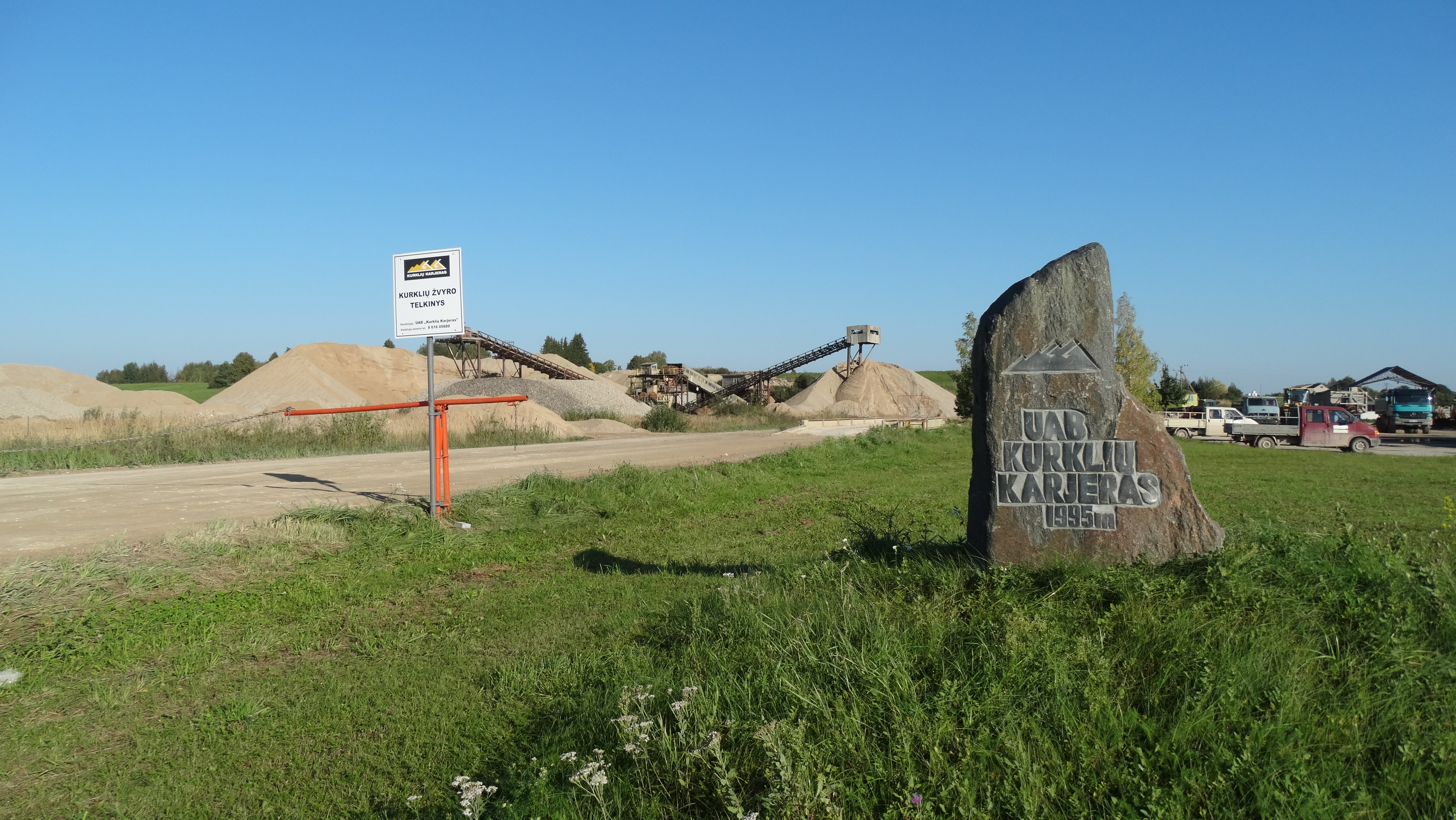 Quarry, Kurkliai, Anykščiai District, Lithuania